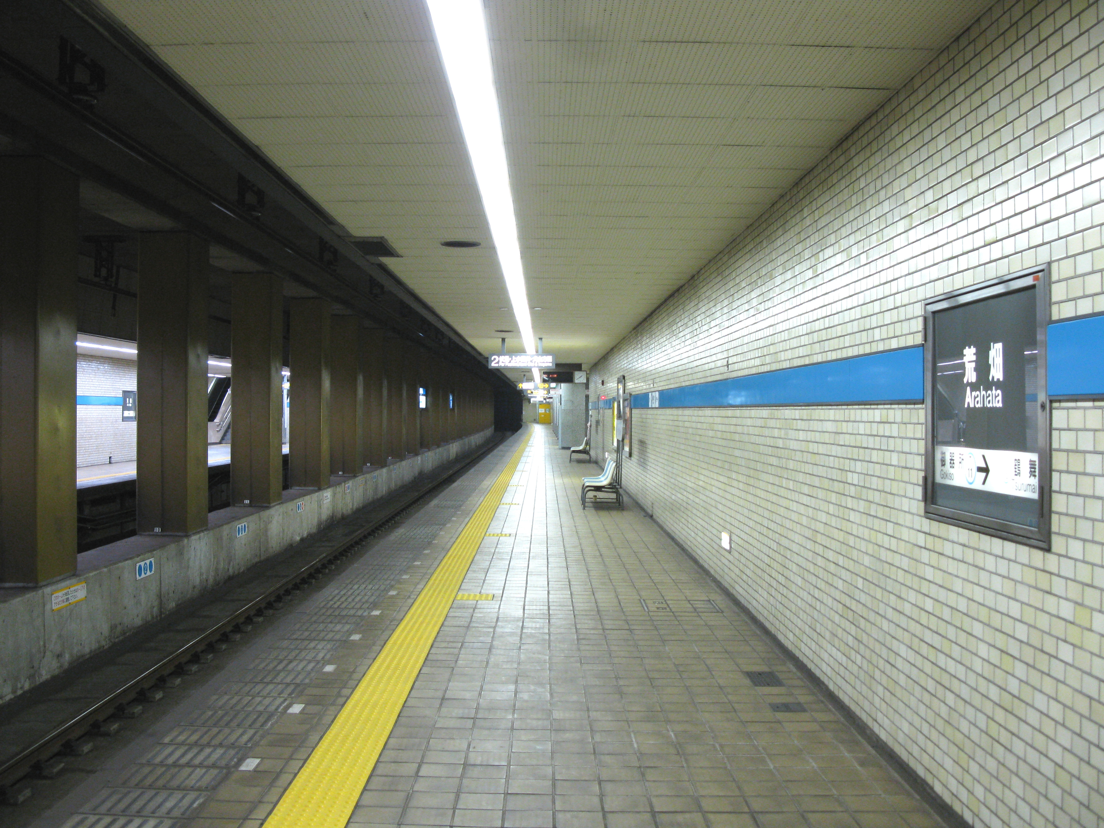 Arahata Station platform (Nagoya Municipal Subway Tsurumai Line)